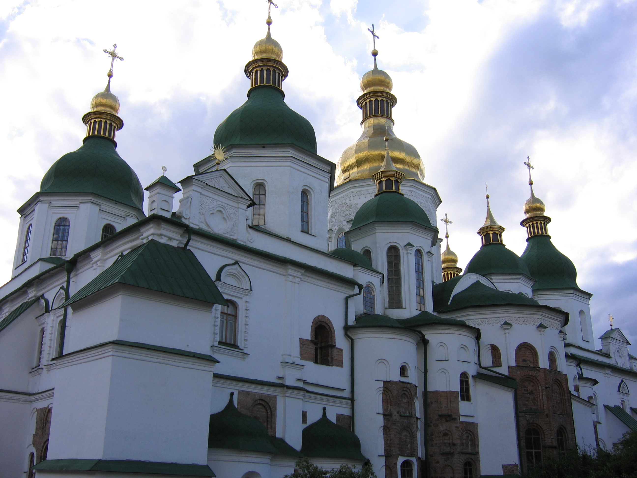 Saint Sophia Cathedral in Kiev, Ukraine